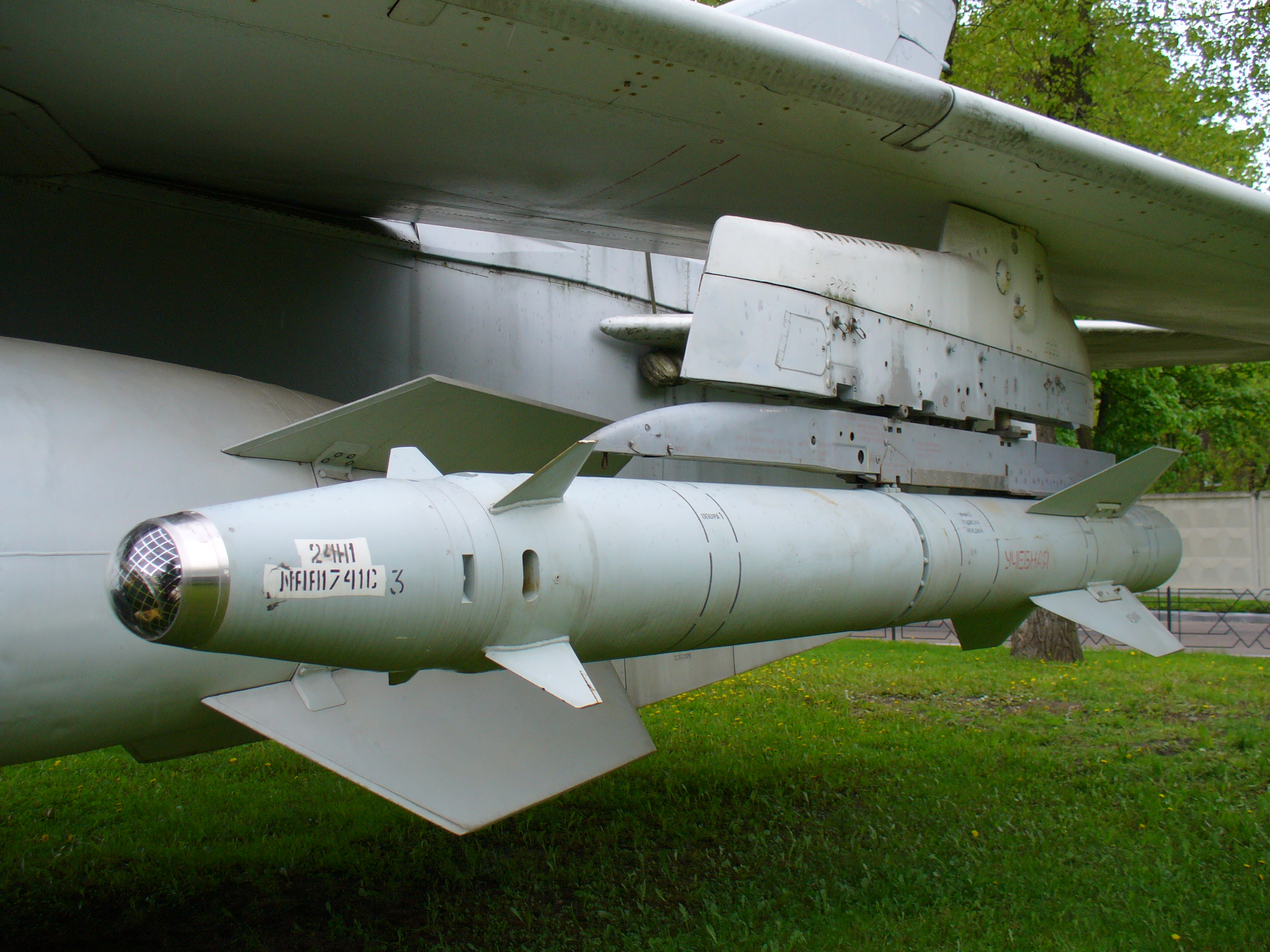 The Kh-25ML (AS-10 "Kerry"), was Soviet short-range air-to-ground missile with semi-active laser guidance on a Su-24 aircraft. Ukrainian Air Force Museum in Vinnitsa.